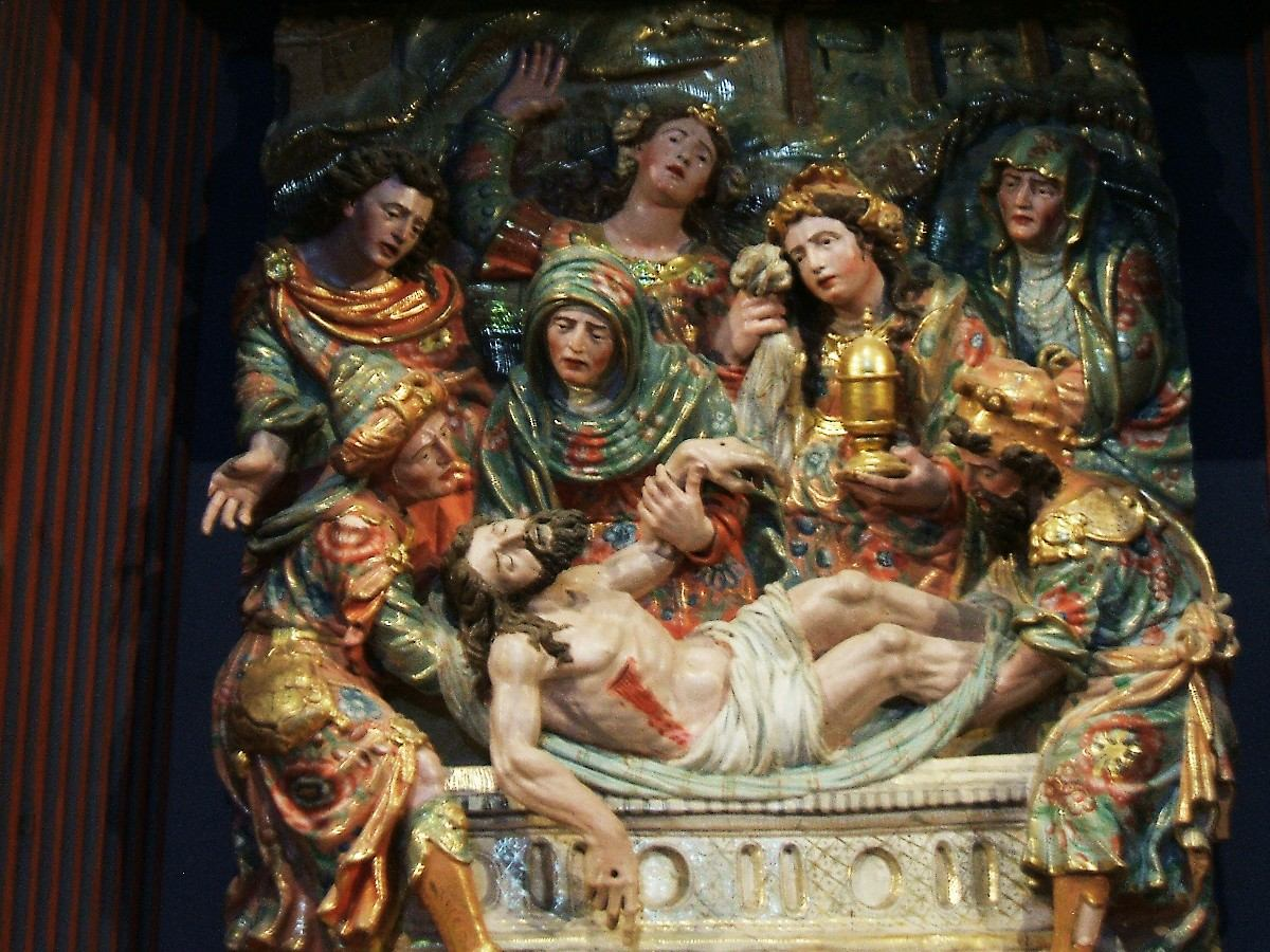 Detalle delRetablo Mayor renacentista-manierista (s-XVI) de la Iglesia parroquial de Santa María la Mayor, San Vicente de la Sonsierra, La Rioja, España/Spain